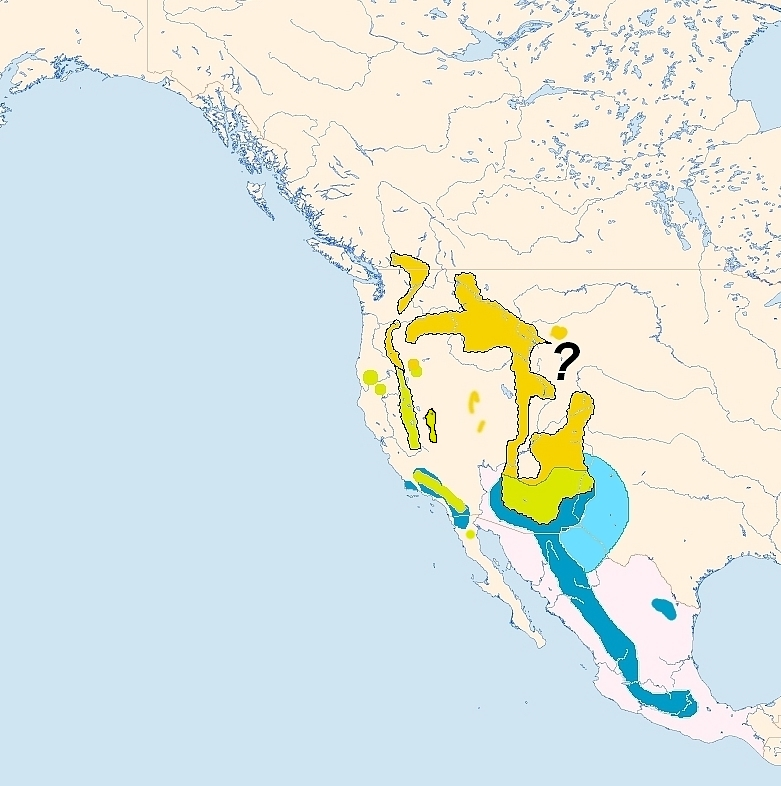 Williamson's Sapsucker - distribution